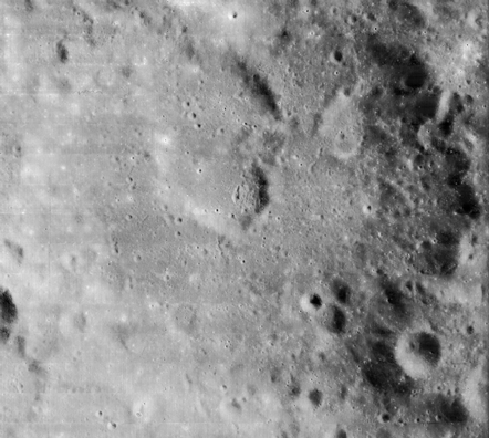 Image of lunar crater Wyld with surroundings, taken by Lunar Orbiter 1. The preview image 1021_med.jpg was reduced in size to 25% of normal, then cropped to focus on the crater.